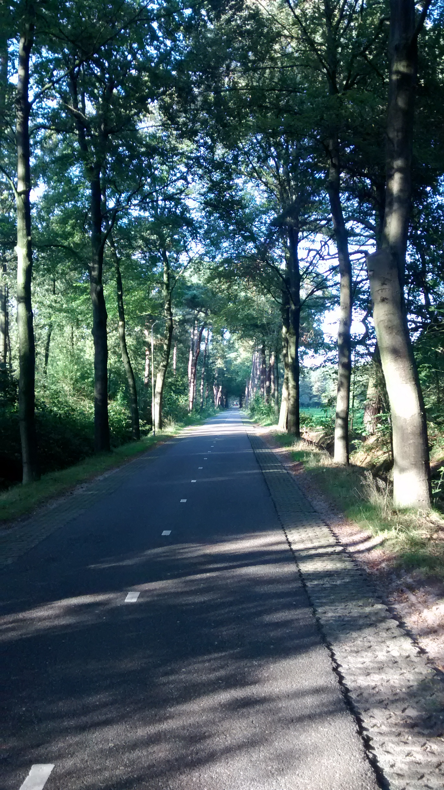 Groenewoudsedijk, Oostelbeers, The Netherlands. Created September 2014